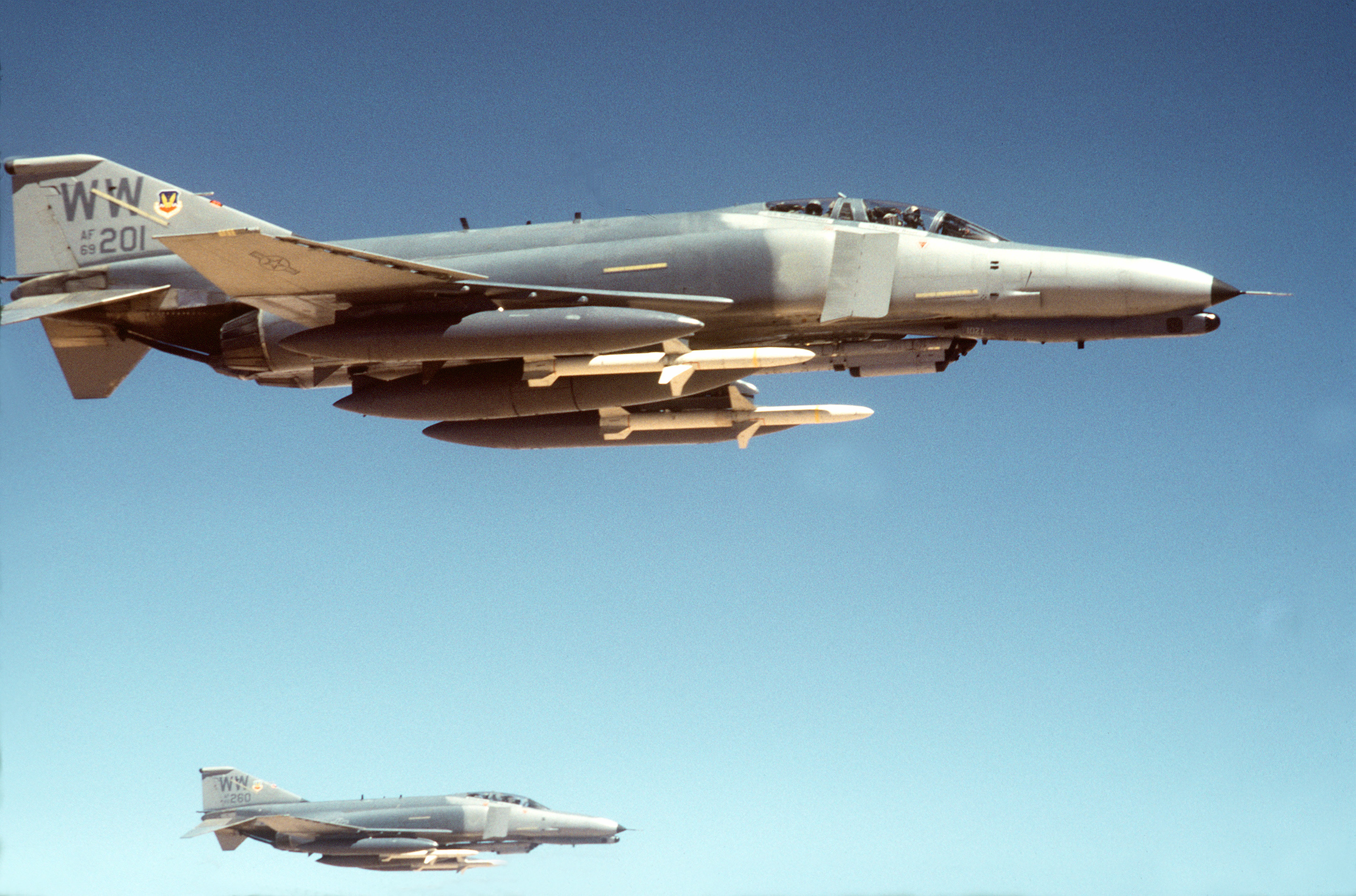 Two U.S. Air Force 35th Tactical Fighter Wing McDonnell Douglas F-4G Phantom II aircraft pass over the Saudi desert while on a training flight during Operation Desert Shield on 11 January 1991. The aircraft are carrying external fuel tanks on their outboard wing pylons and AGM-88 HARM high-speed anti-radiation missiles on their inboard wing pylons.